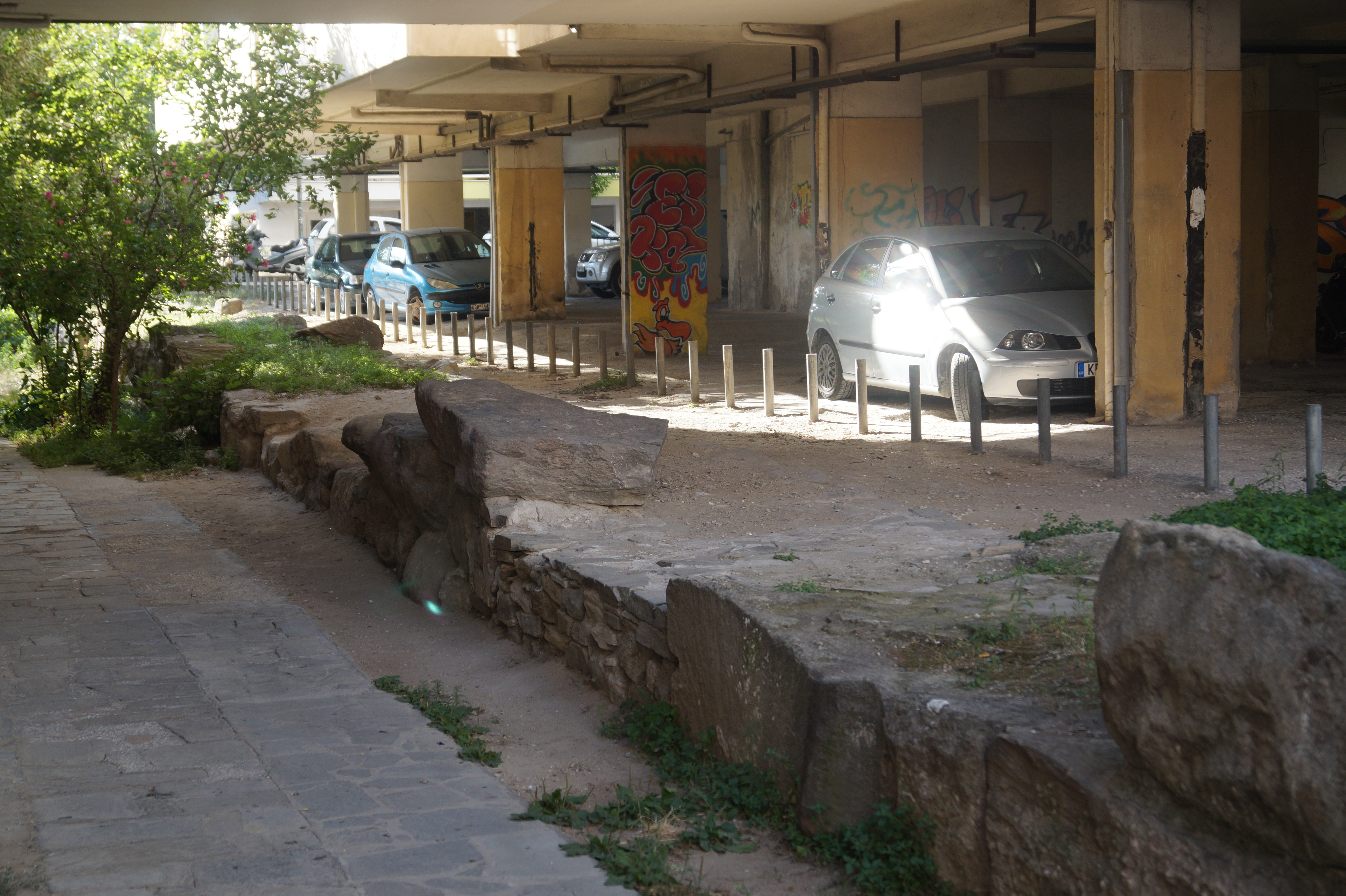 Kalamitsa, Makedonia, Greece: Walls of ancient Antisara under a house (5th cent. BC).